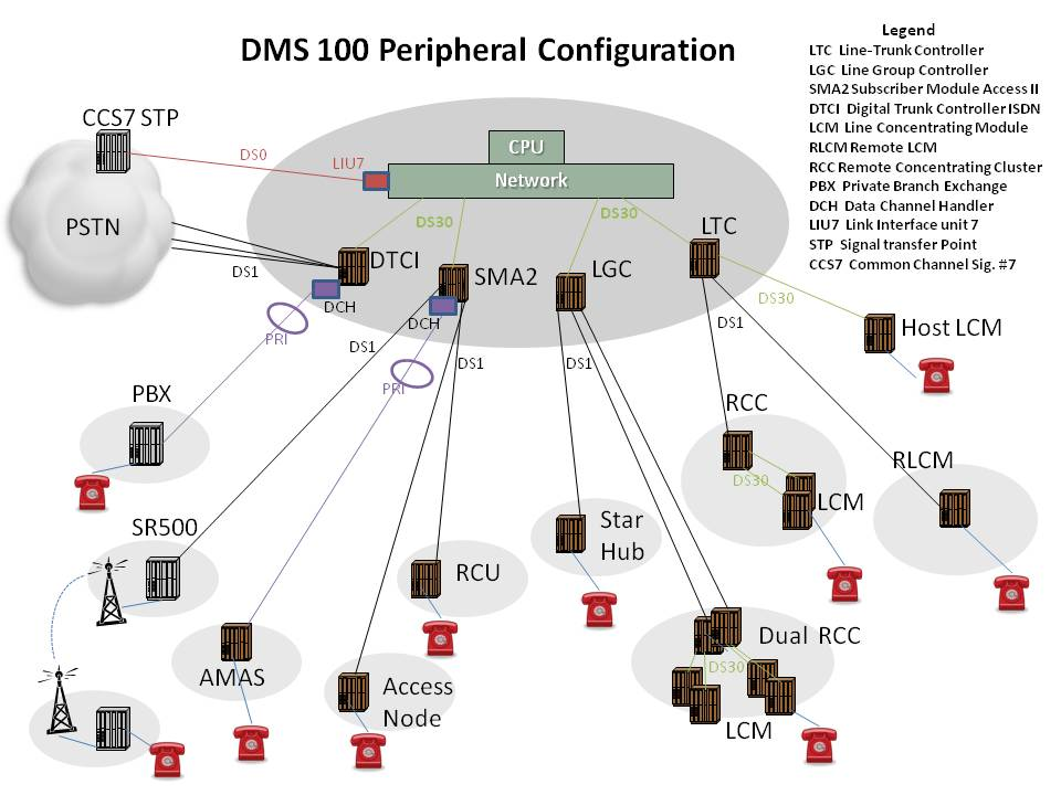 Peripheral configuration showing the most common peripheral modules used in the DMS 100 switching system.